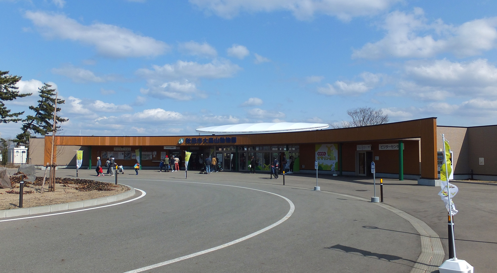 entrance gate and visitor center of the Akita Municipal Omoriyama Zoo (aka. "Akigin Omorin-no-mori")